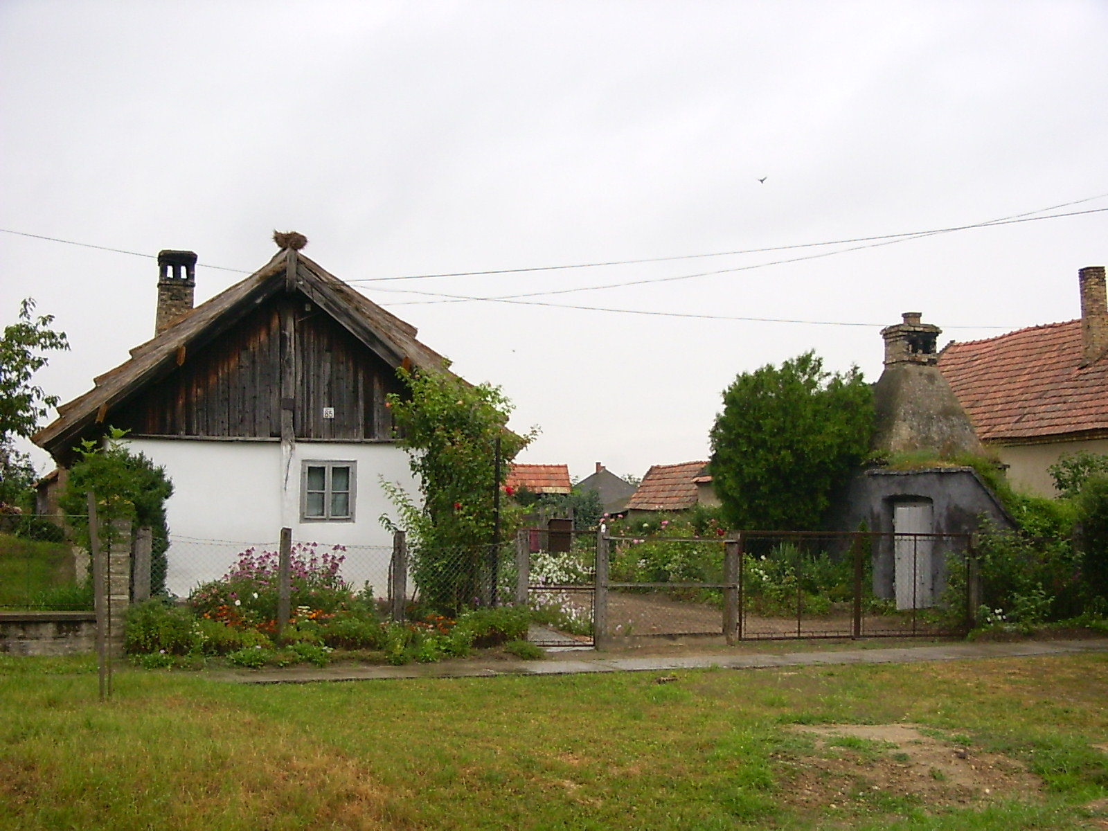 Nyalka, old home of a peasant family This is a photo of a monument in Hungary, Identifier: 4625